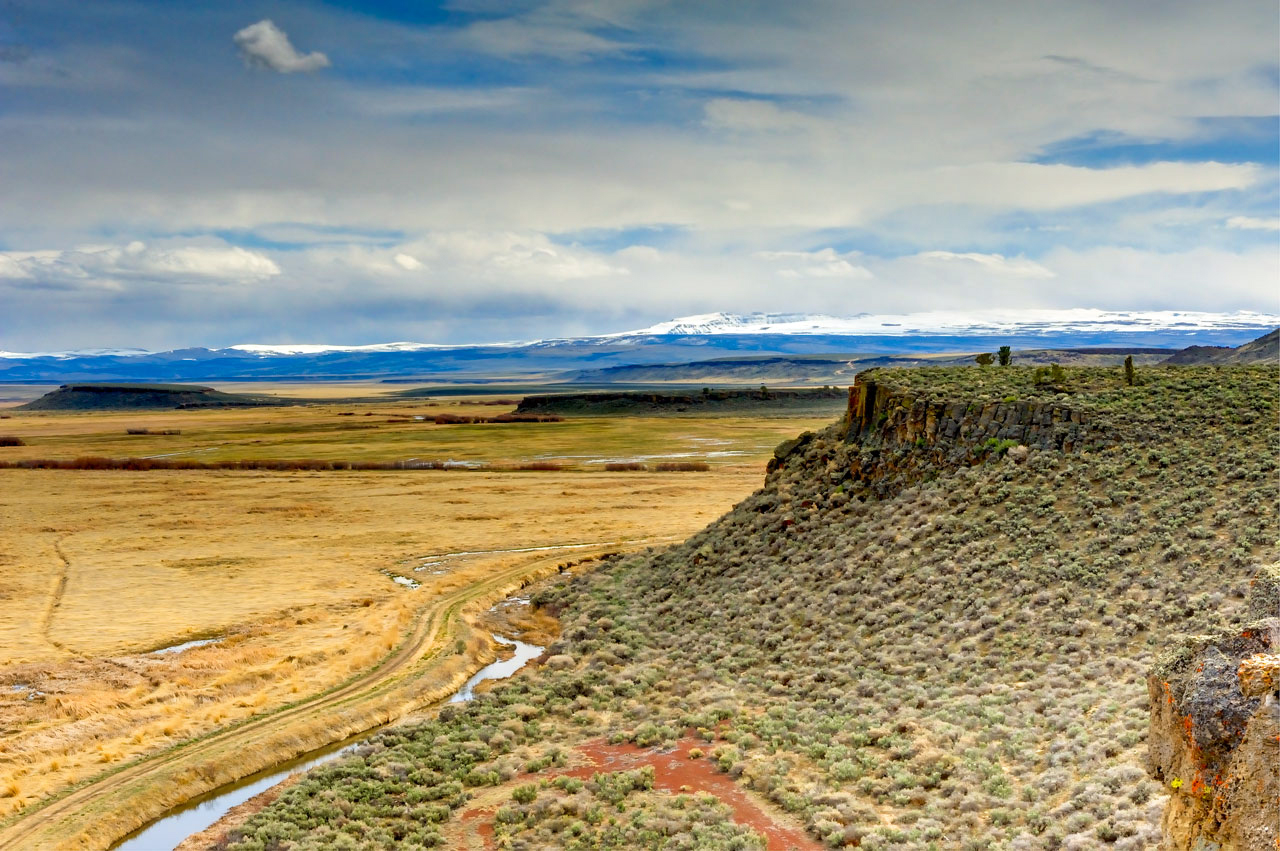 A view of the Steens Mountains from the Buena Vista Overlook located in the Malheur National Wildlife Refuge